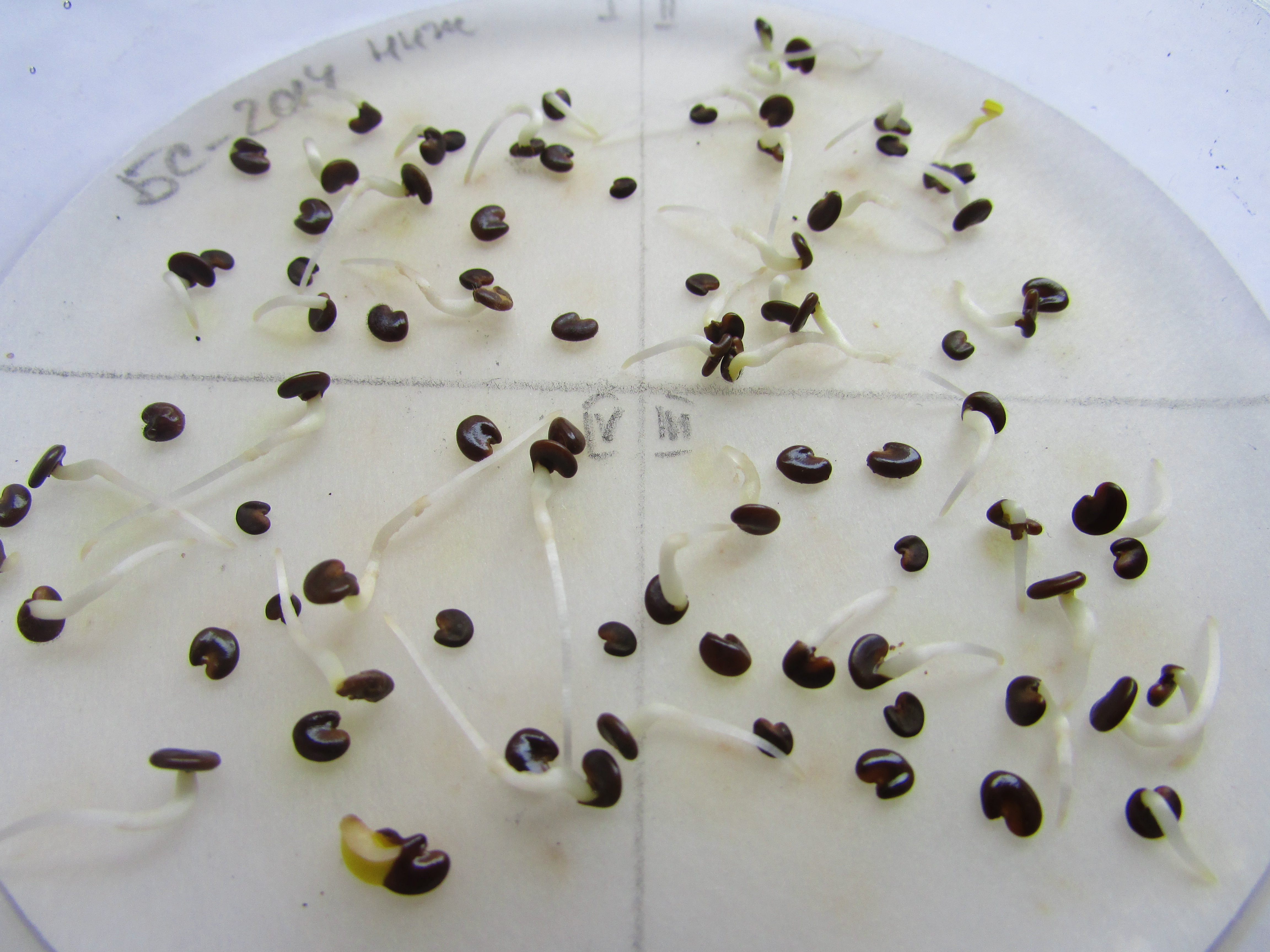 Determination of laboratory viability of seeds of Oxytropis hippolyti. Seeds couched in vitro in Petri's cups.